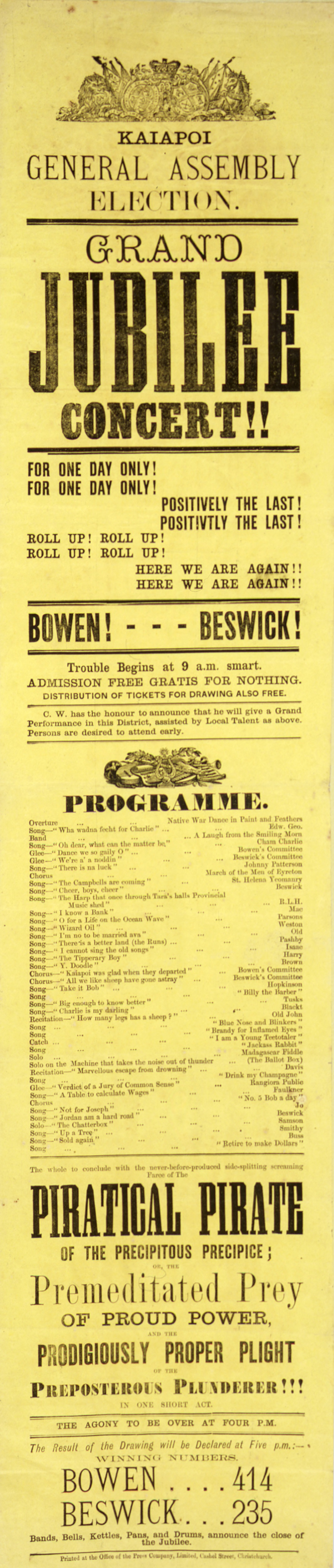 Text purports to give the programme for a concert starring Bowen and Beswick. However, it is a satirical political poster commenting on two of the contestants for the Kaiapoi seat in the 1875 general election, Charles Bowen and Joseph Beswick. The election coincided with the 25th jubilee of the Canterbury Province. Bowen won, but not by as large a margin as the poster predicted. "Songs" featured in the concert include "Charlie is my darling", "How many legs has a sheep", "Not for Joseph", "Kaiapoi was glad when they departed".